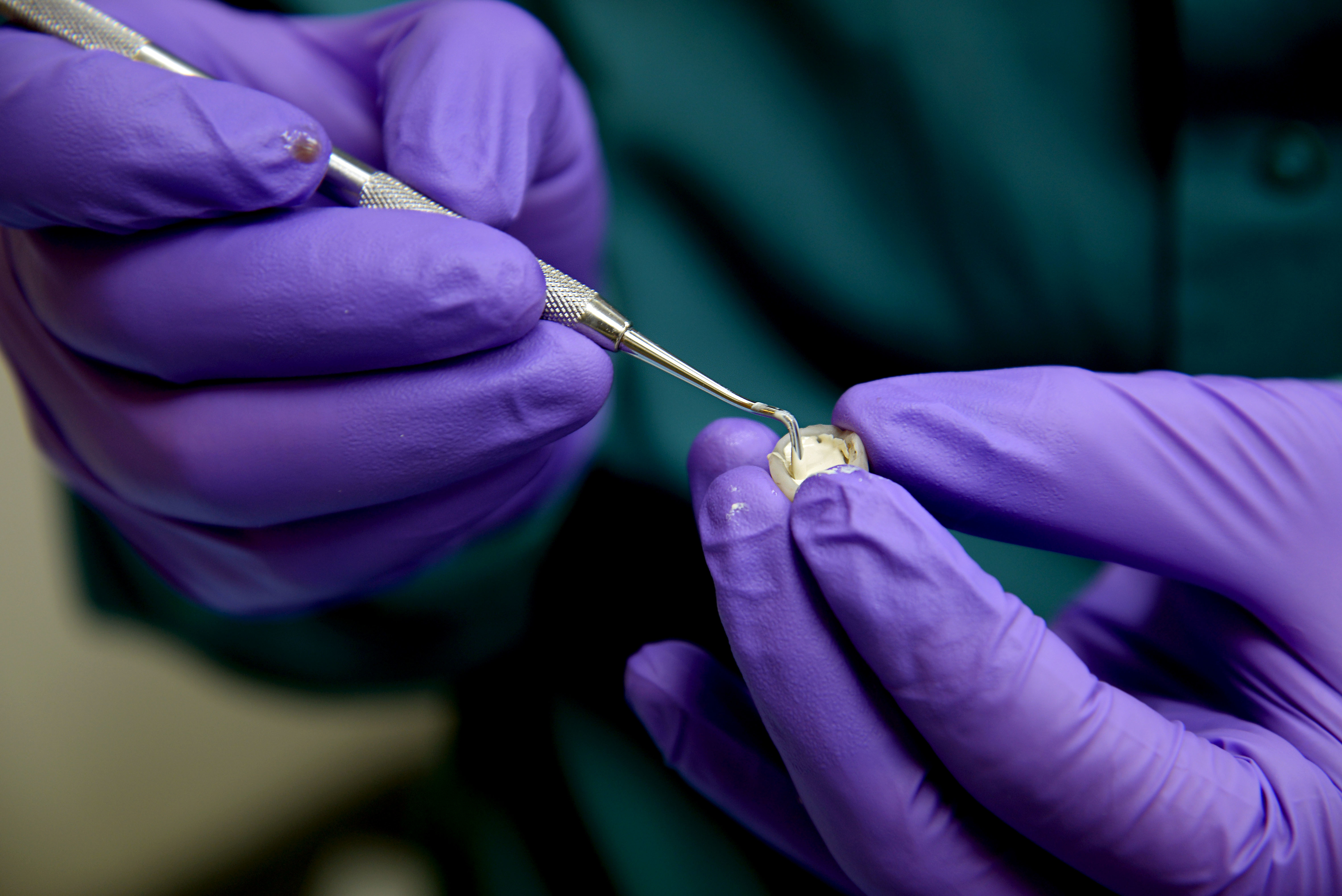 U.S. Air Force Airman 1st Class Charity Morejon, 48th Dental Squadron dental technician from Ocala, Fla., puts cement on a temporary crown Feb. 20, 2014 on RAF Mildenhall, England. The crown will be worn up to six weeks while the permanent gold crown is being made. (U.S. Air Force photo by Senior Airman Christine Griffiths/Released) Unit: 100th Air Refueling Wing Public Affairs